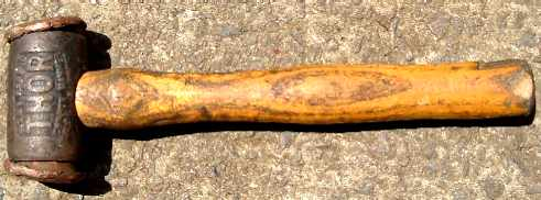 Round copper mallet about 280 mm long, photographed by me.